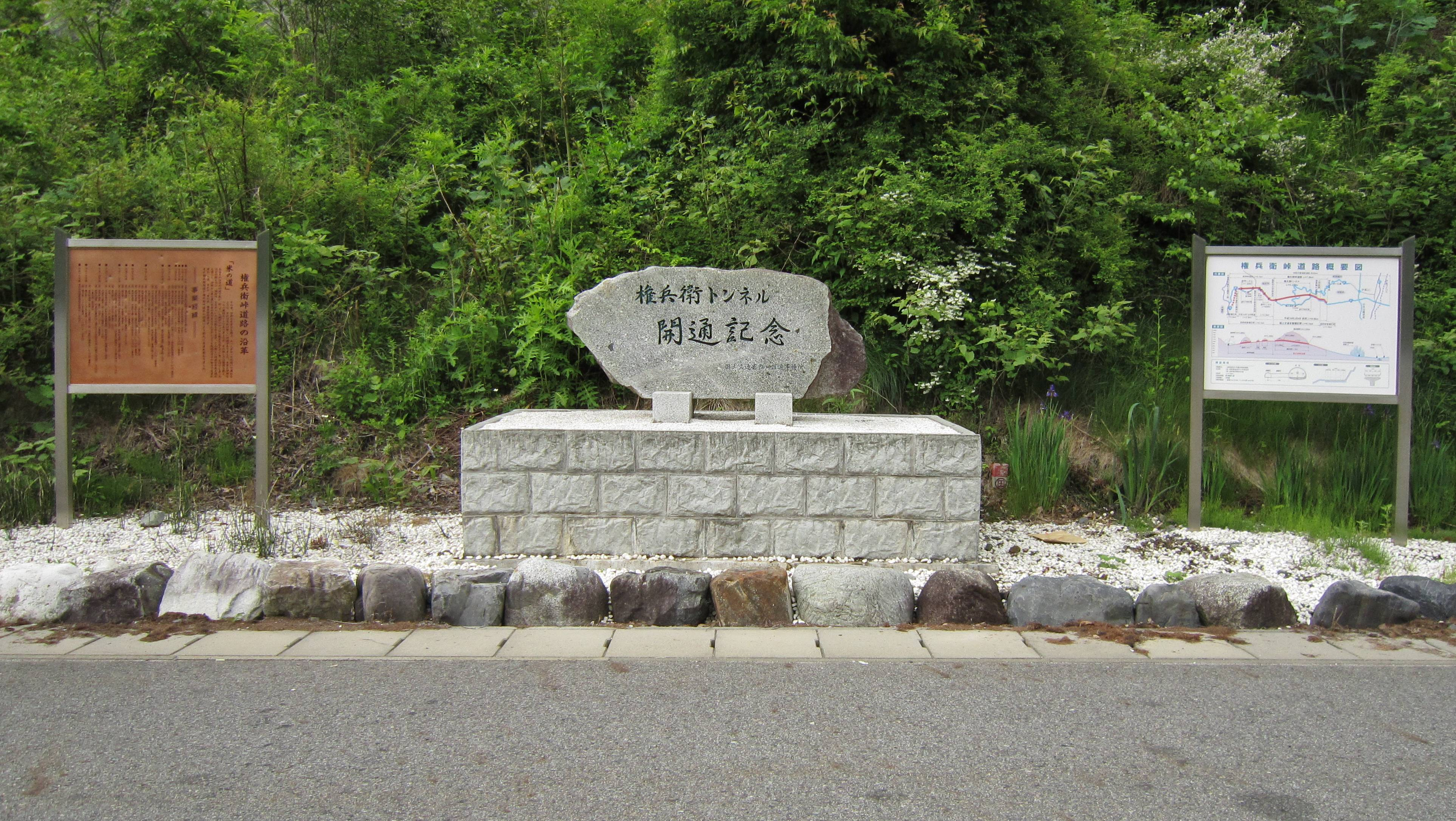 Gonbei Tunnel monument.